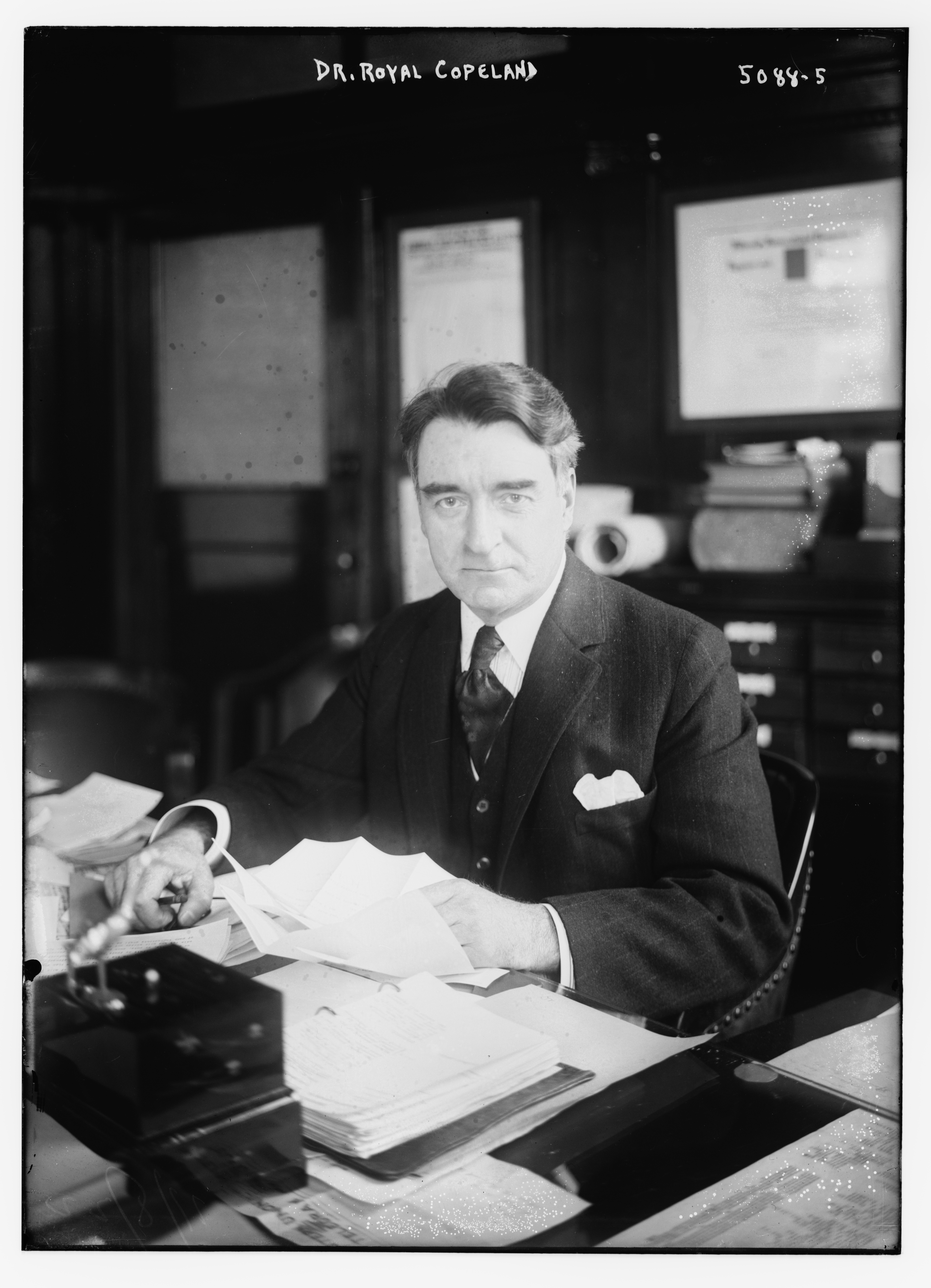 Royal Samuel Copeland in 1920